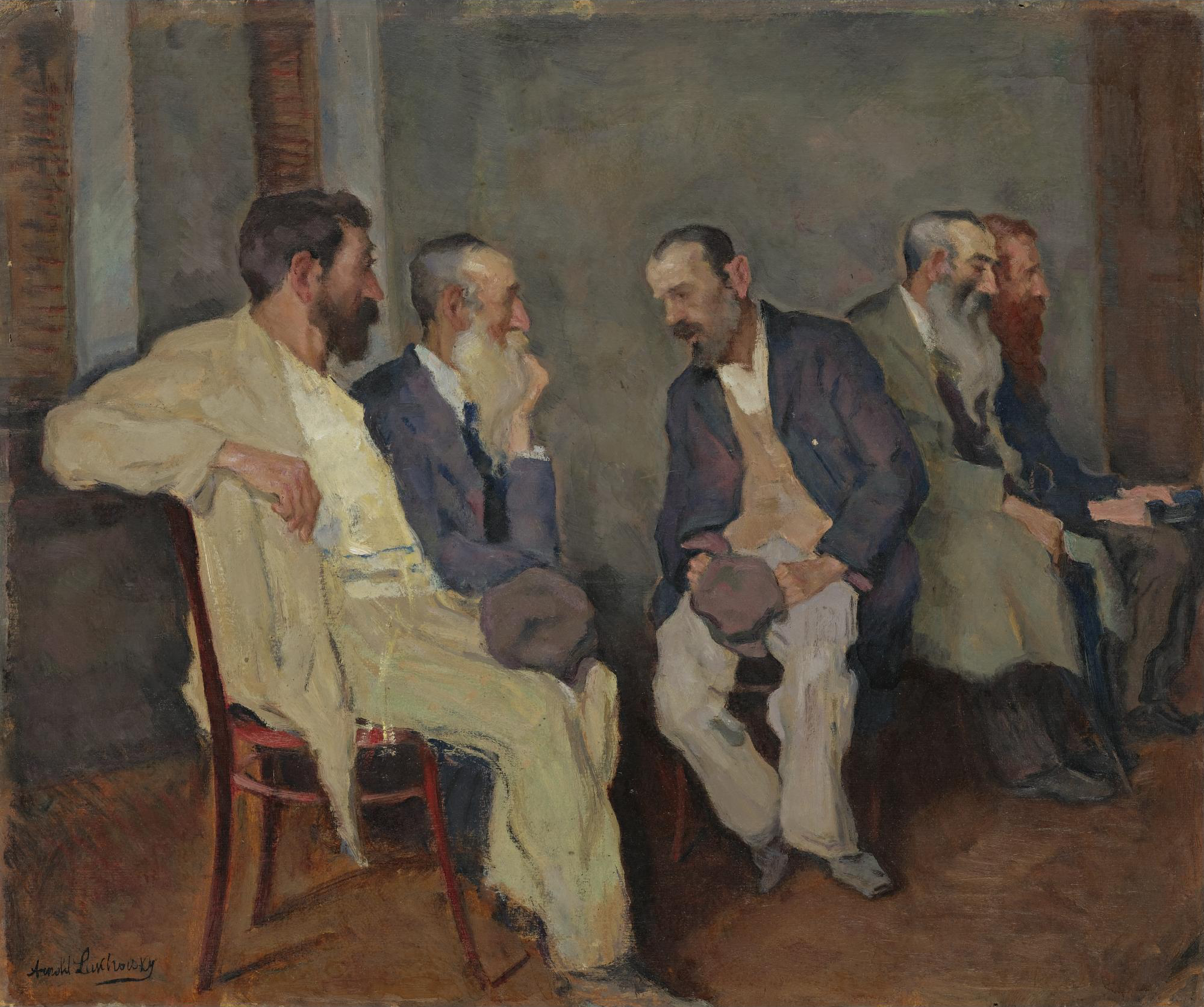 oil painting of men having a conversation, by Arnold Borisowich Lakhovsky